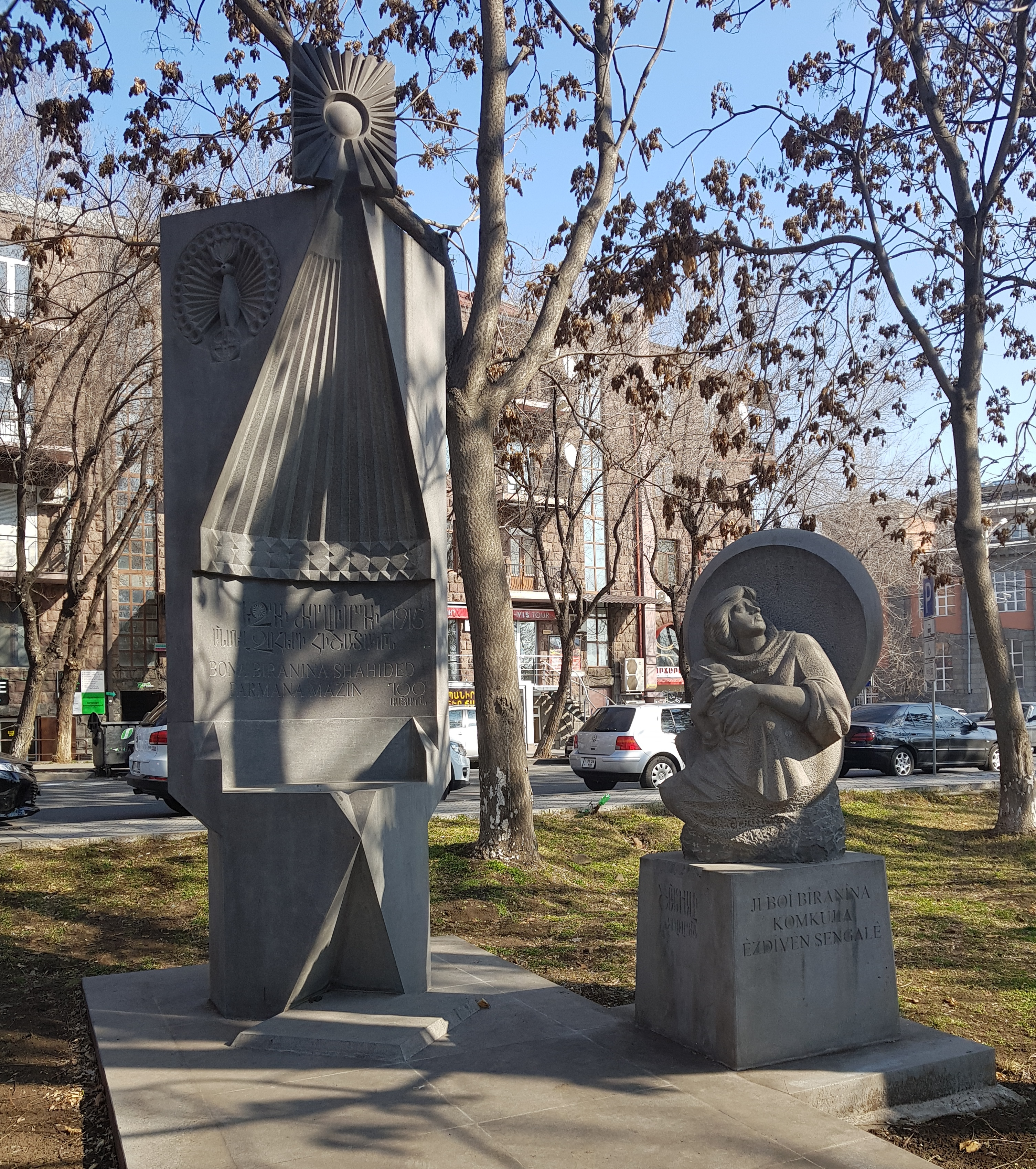 Yezidi victims Monument in Yerevan